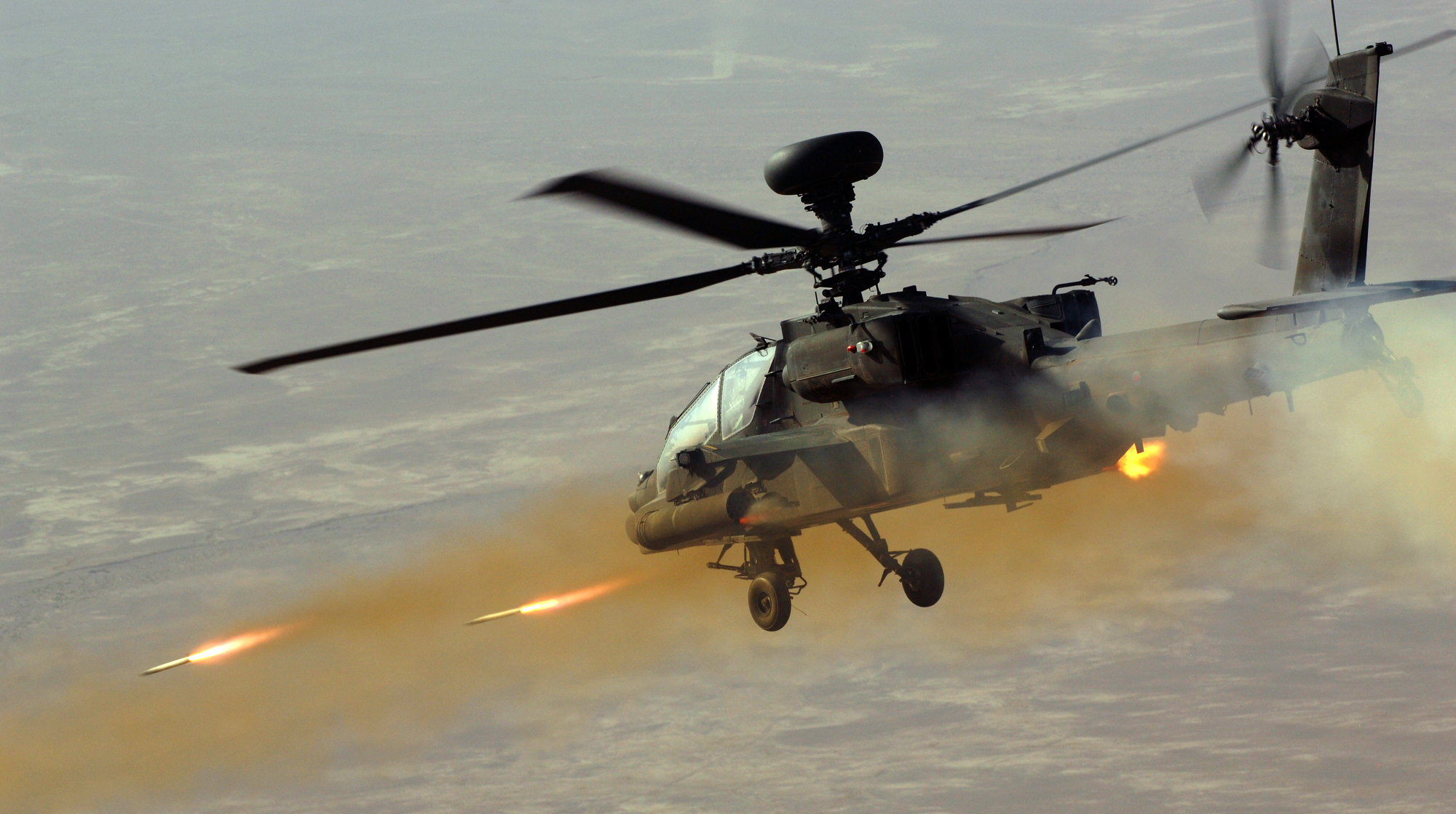 An Apache Attack helicopter of the Army Air Corps in Afghanistan fires rockets. Designed to hunt and destroy tanks, the Apache attack helicopter significantly improved the Army's operational capability.The Apache attack helicopter can operate in all weathers, day or night and detect, classify and prioritise up to 256 potential targets in a matter of seconds. It carries a mix of weapons including rockets, Hellfire missiles and a 30mm chain gun, as well as a state of the art fully integrated defensive aid suite.In addition to the distinctive Longbow radar located above the rotor blades, this aircraft is equipped with a day TV system, thermal imaging sight and direct view optics.